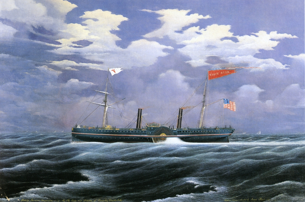 North Star, steam yacht built for Cornelius Vanderbilt in 1852. Vanderbilt was then the richest man in the United States.